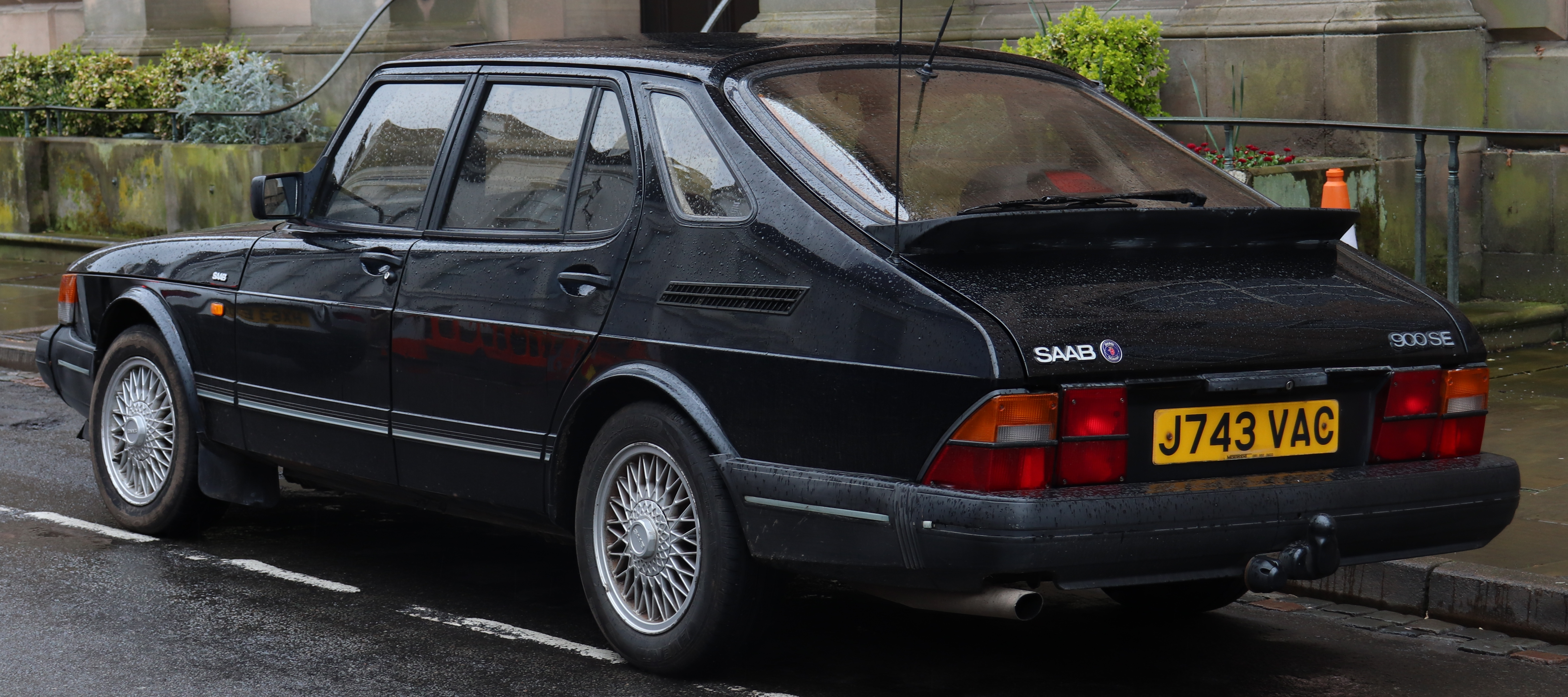 1992 Saab 900 S Turbo 2.0 Rear Taken in Warwick